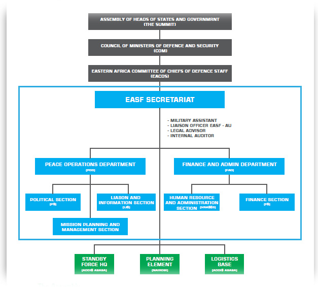 EASF Organogram